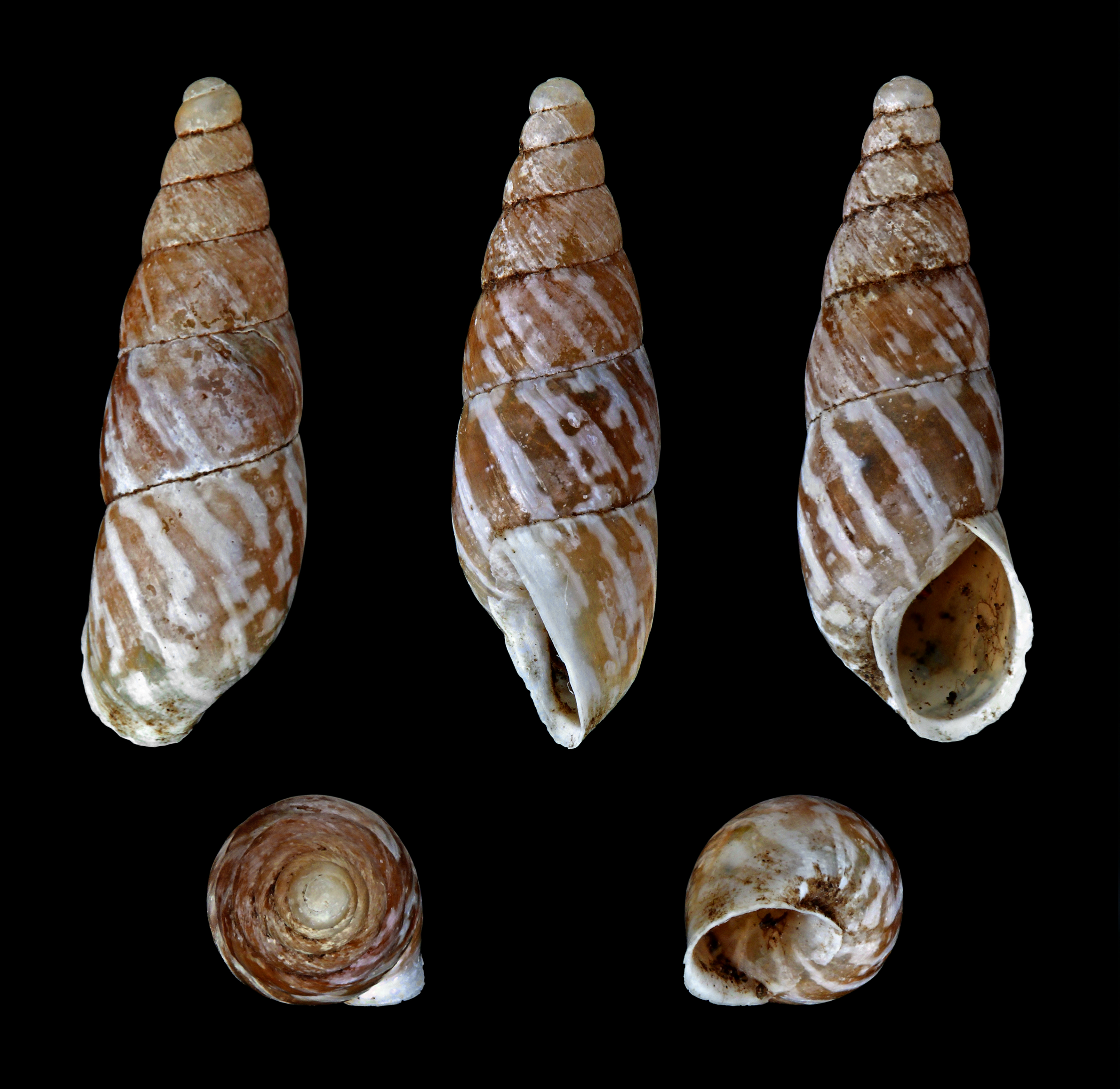 Length 1.2 cm; Originating from the Barranco de Masca, Masca, Tenerife, Spain (28°18′8.29″N 16°50′30.42″W / 28.3023028°N 16.8417833°W); Shell of own collection, therefore not geocoded. Dorsal, lateral (right side), ventral, back, and front view.